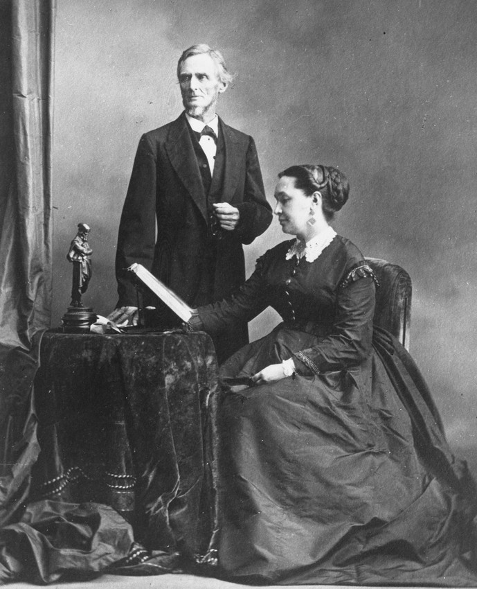 Jefferson and Varina Davis, Confederate president and first lady during the American Civil War (1861–1865), are photographed here in Montreal, Canada, in 1869. After the war, Jefferson Davis was incarcerated for two years at Fort Monroe, Virginia. Following his release, the couple traveled to Canada, Cuba, and Europe. He was elected to the U.S. Senate but could not serve under the terms of Section Three of the Fourteenth Amendment to the U.S. Constitution, which forbade politicians sworn in before the war who then joined the Confederacy from serving again in public office after the war.